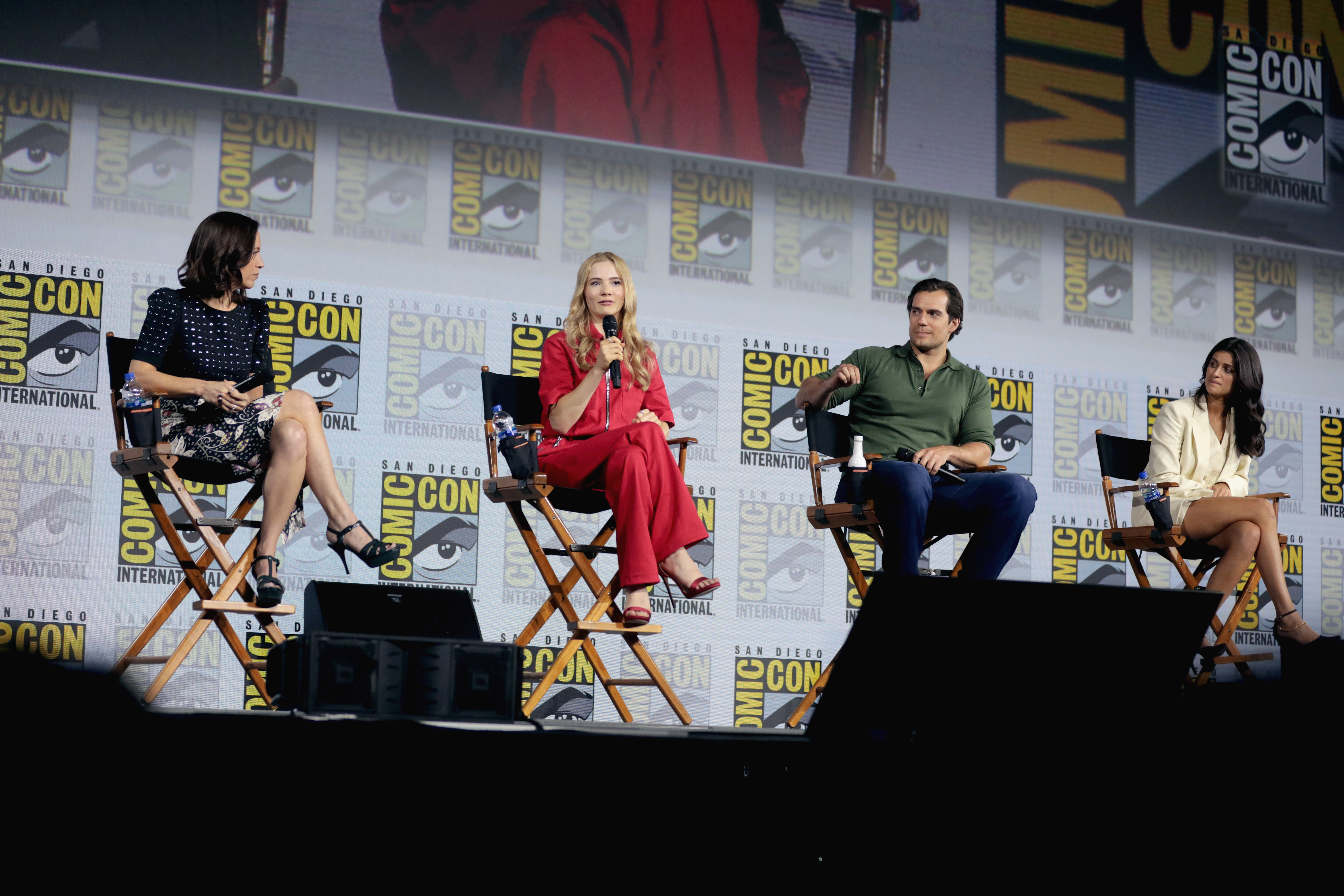 Lauren Schmidt Hissrich, Freya Allan, Henry Cavill and Anya Chalotra speaking at the 2019 San Diego Comic Con International, for "The Witcher", at the San Diego Convention Center in San Diego, California.